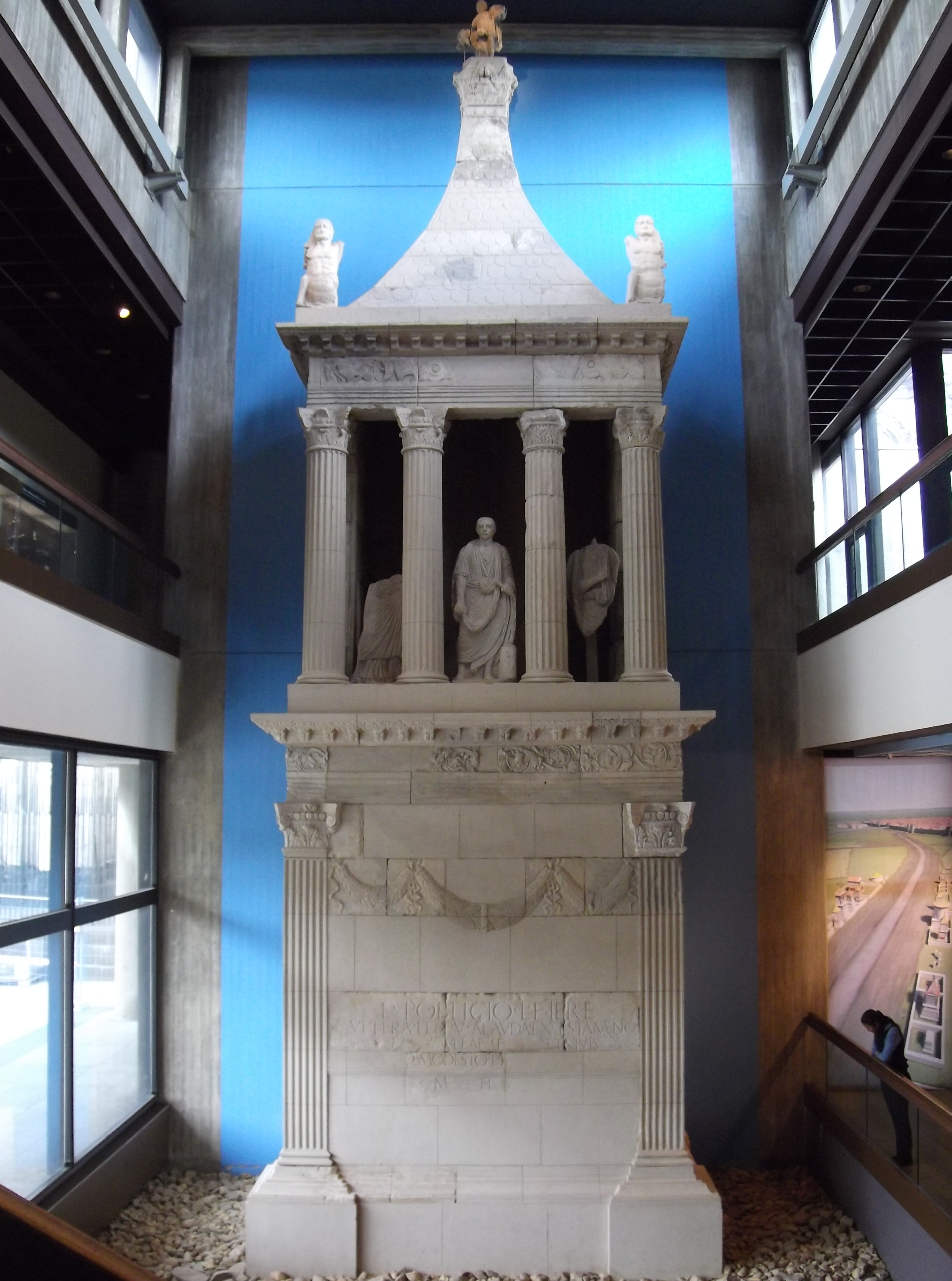 Sepulcher of Poblicius